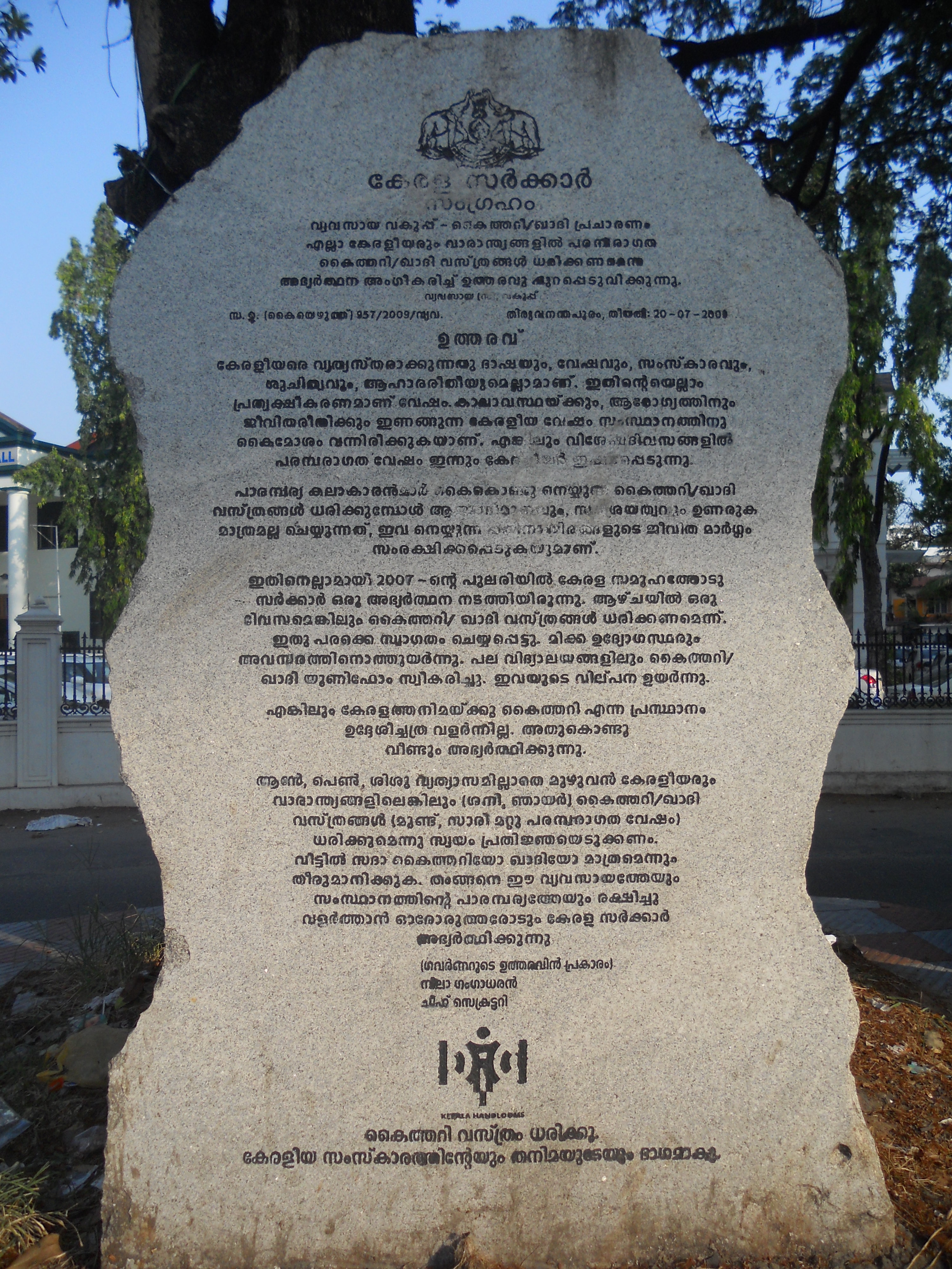 A signage kept at Kochi appealing to the citizen to promote the usage of Khadi/ handloom based wear.